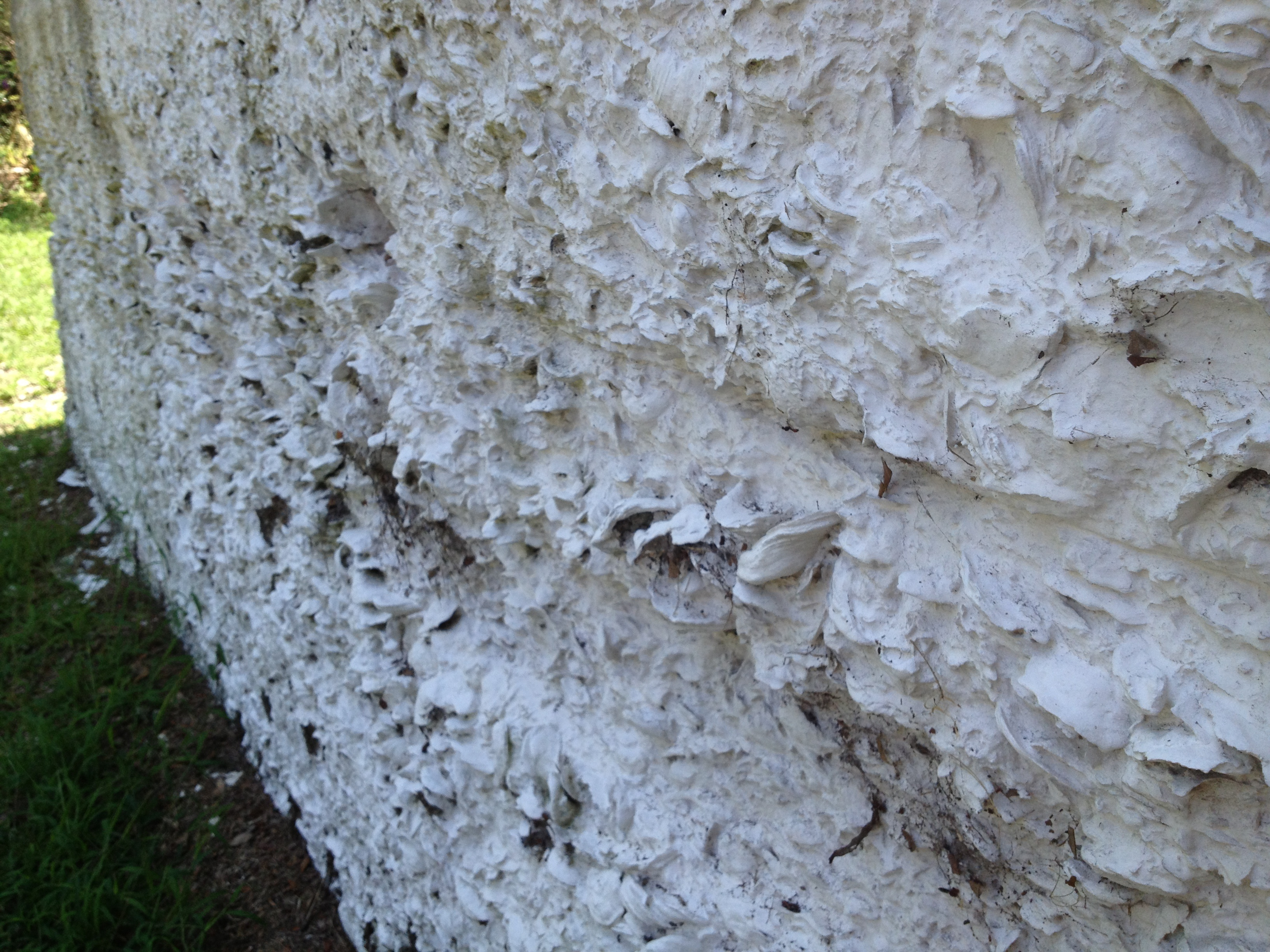 Original tabby concrete walls of slave housing at Kingsley Plantation on Fort George Island, Florida, USA, built in 1814.